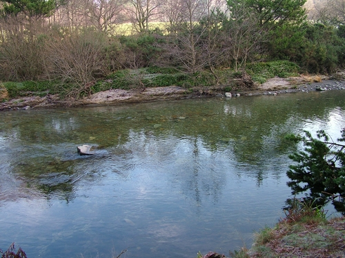 Ystwyth River